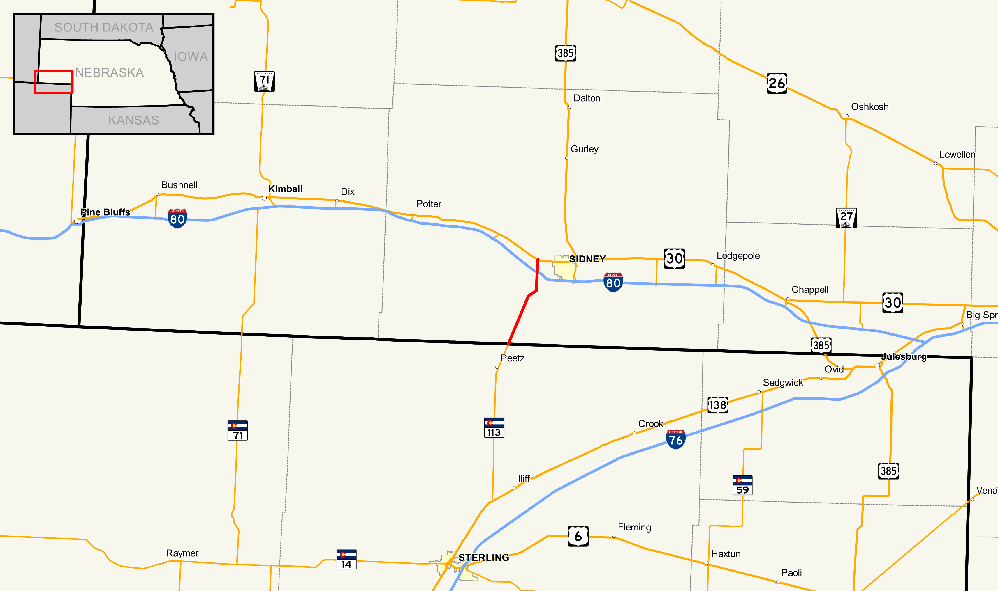 Map of Nebraska Highway 19 Data Sources: Nebraska Highways - - Dec 2016 Nebraska County Boundaries - - Dec 2016 Nebraska City Boundaries - - Dec 2016 This PNG graphic was created with QGIS